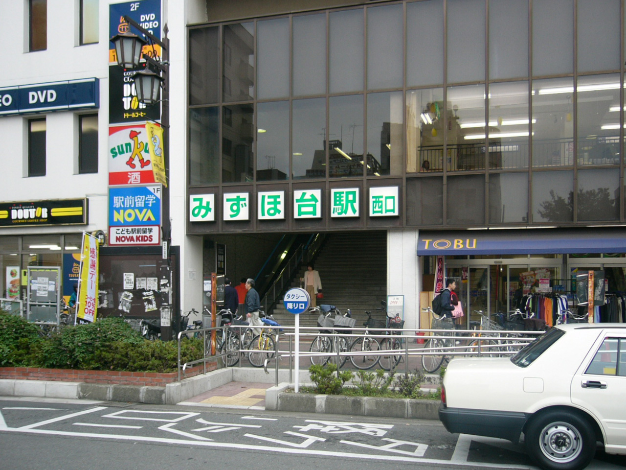 The west entrance to Mizuhodai Station on the Tobu Tojo Line in Saitama Prefecture, Japan